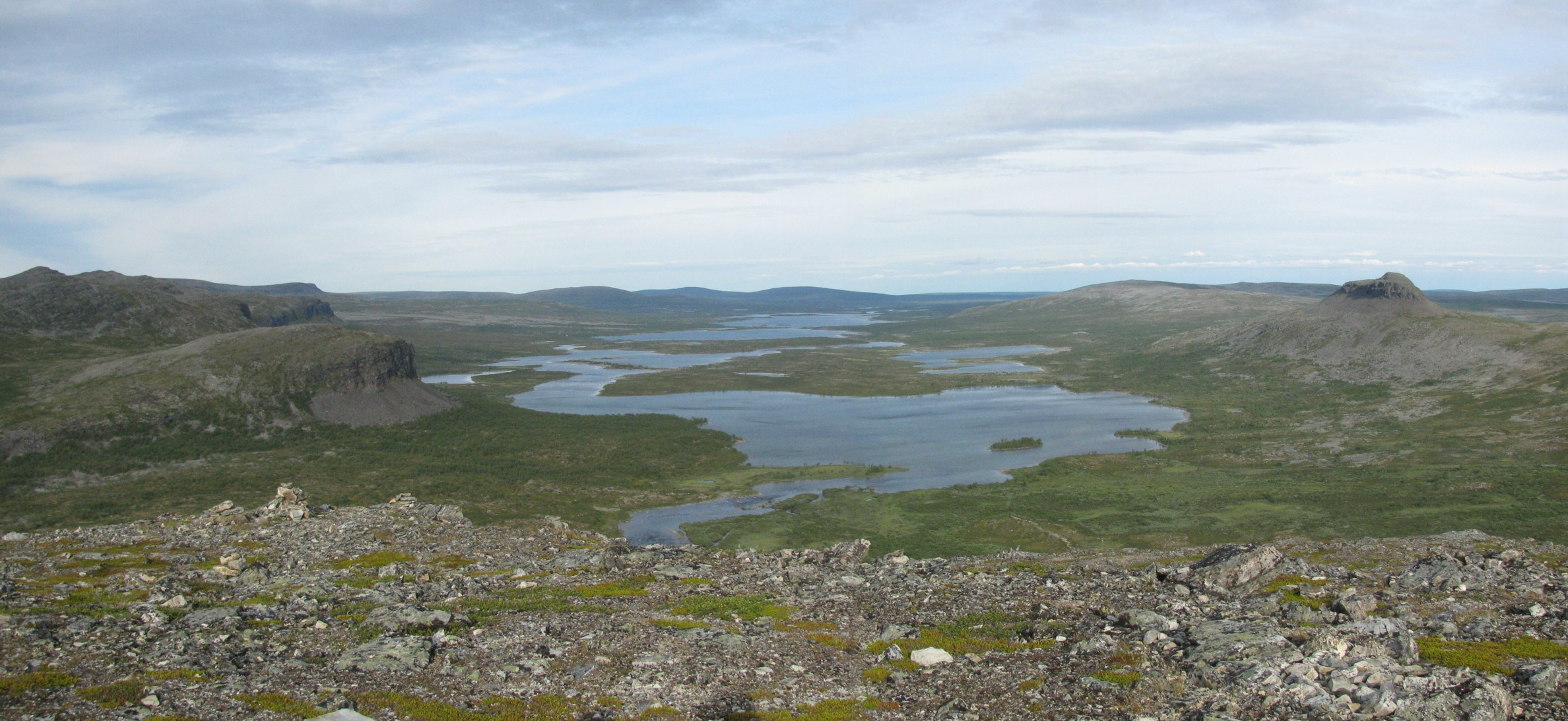 View from Meekonpahta towards Porojärvi in Enontekiö, Finland